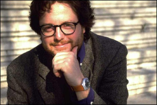 Francesco Bonelli